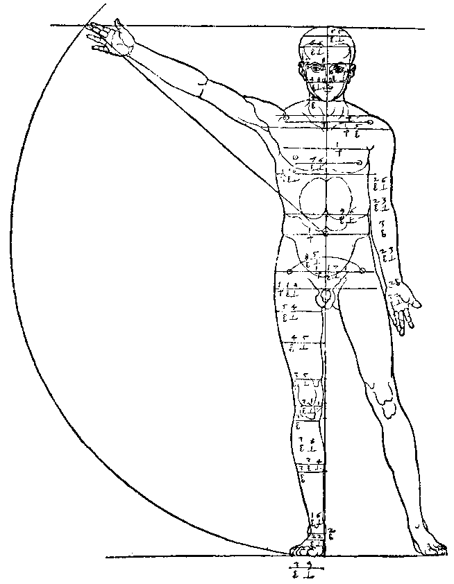 Anatomy and geometrical proportions.